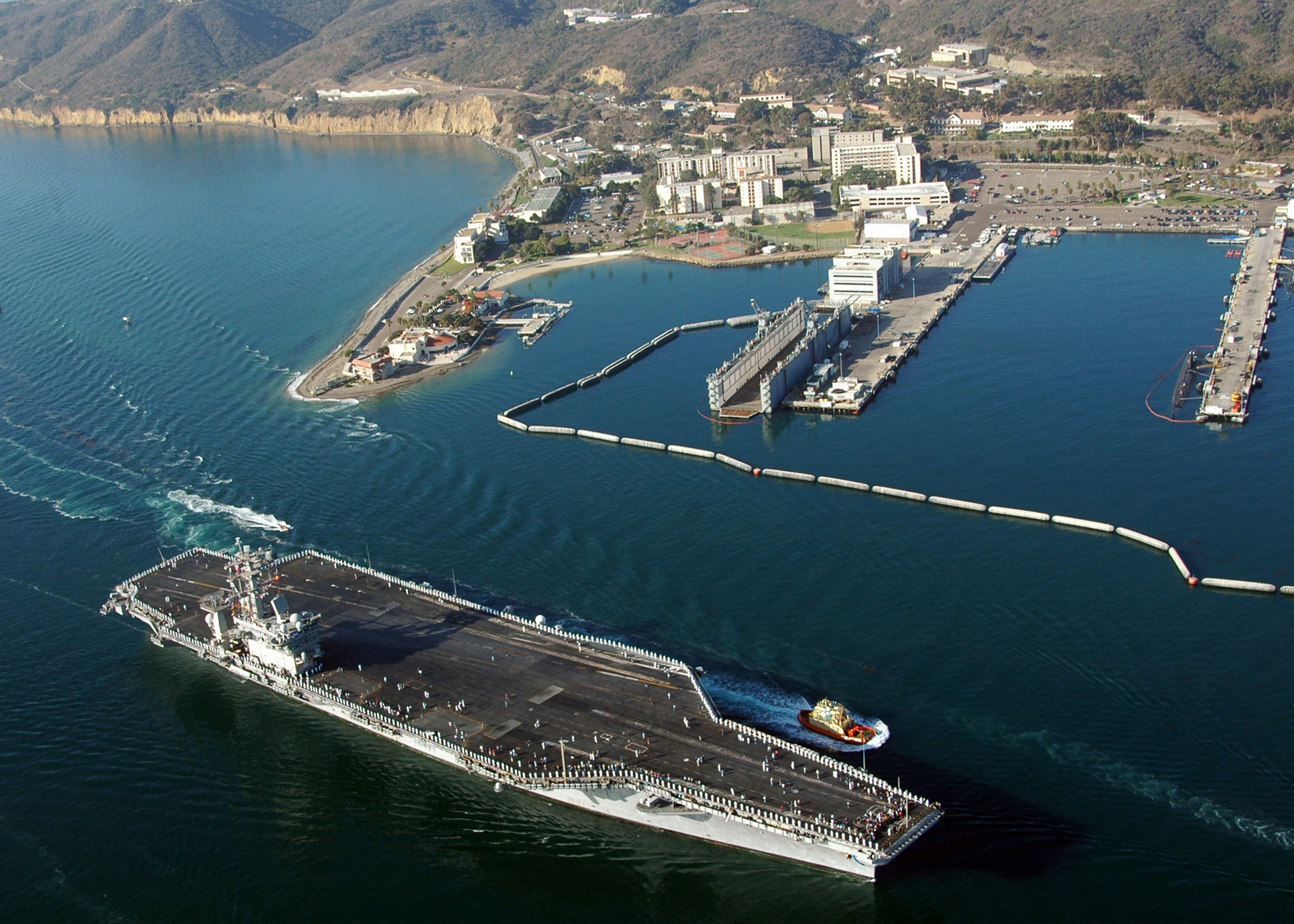 The nuclear-powered aircraft carrier USS Nimitz (CVN 68) passes Naval Base Point Loma, Calif., while returning home to San Diego, Calif., on Sept. 30, 2007, following a six-month deployment.